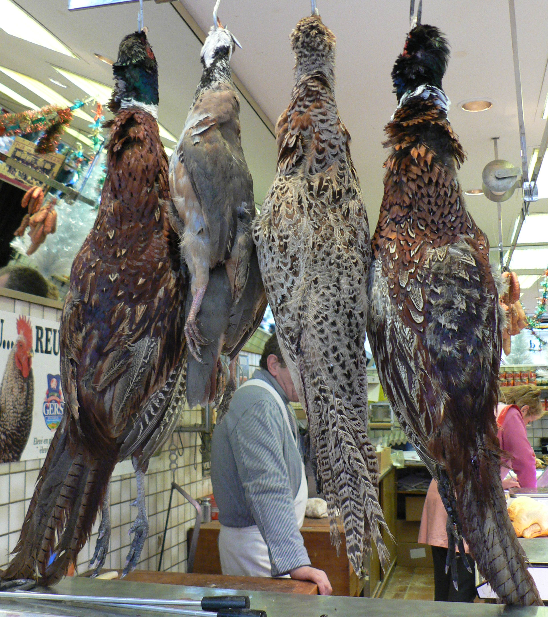 Pheasants on sale at a butcher's, Toulon, France, Christmas 2005